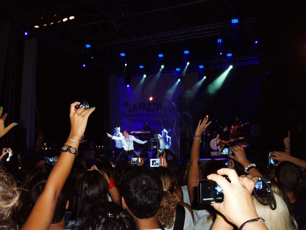 Italian singer Marco Mengoni during a date of his "Re Matto Tour" at San Benedetto del Tronto.